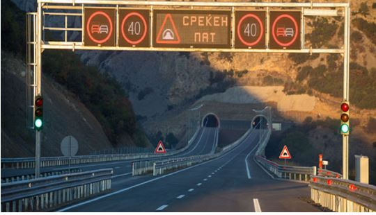 Tunnel